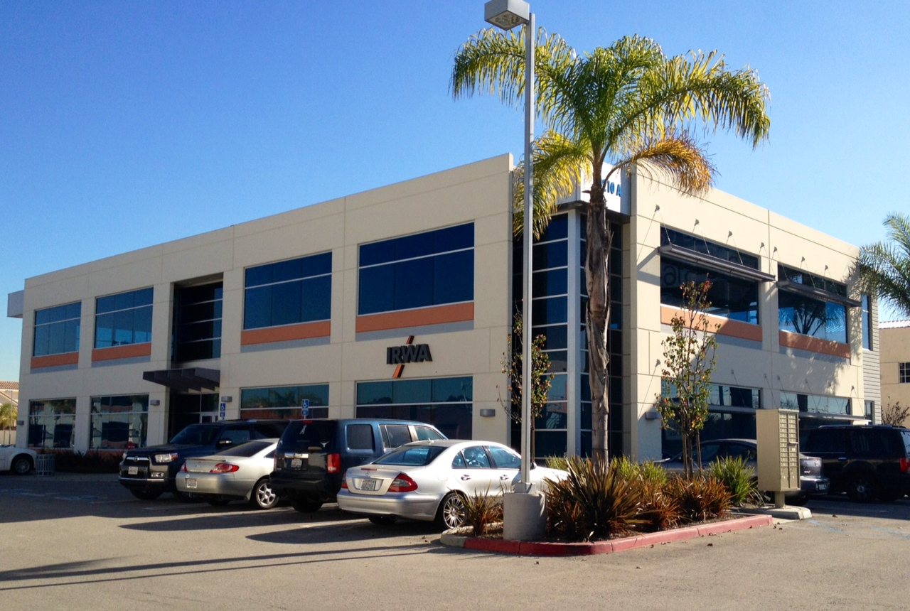 International Right of Way Association headquarters office in Gardena, California.